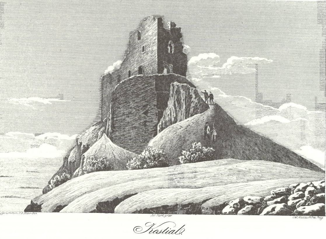 Košťálov Castle in Czech Republic in 1844